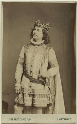 Herve as Chilpéric